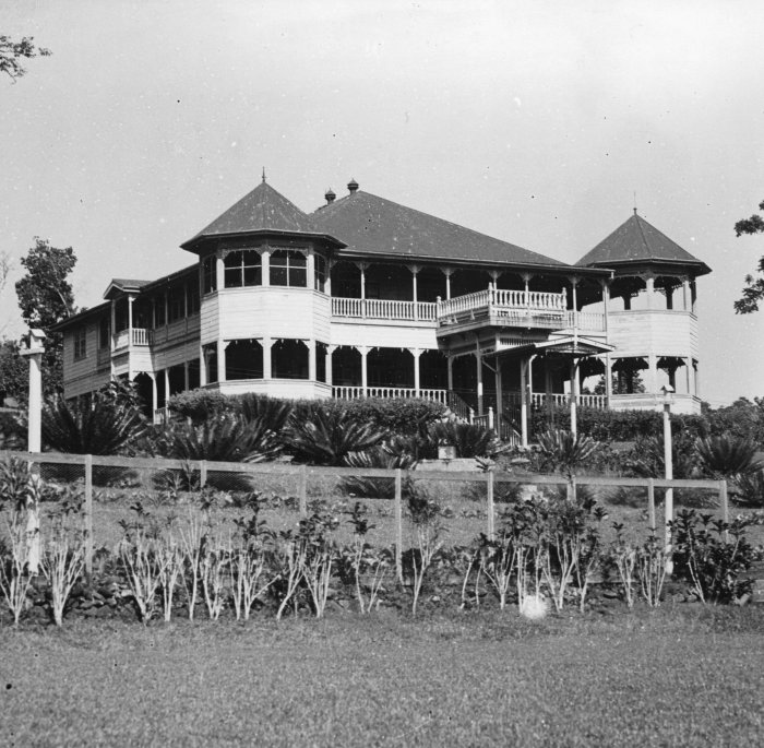 House of Olaf Frederick Nelson of Nelson family, Apia, Samoa.ca 1936